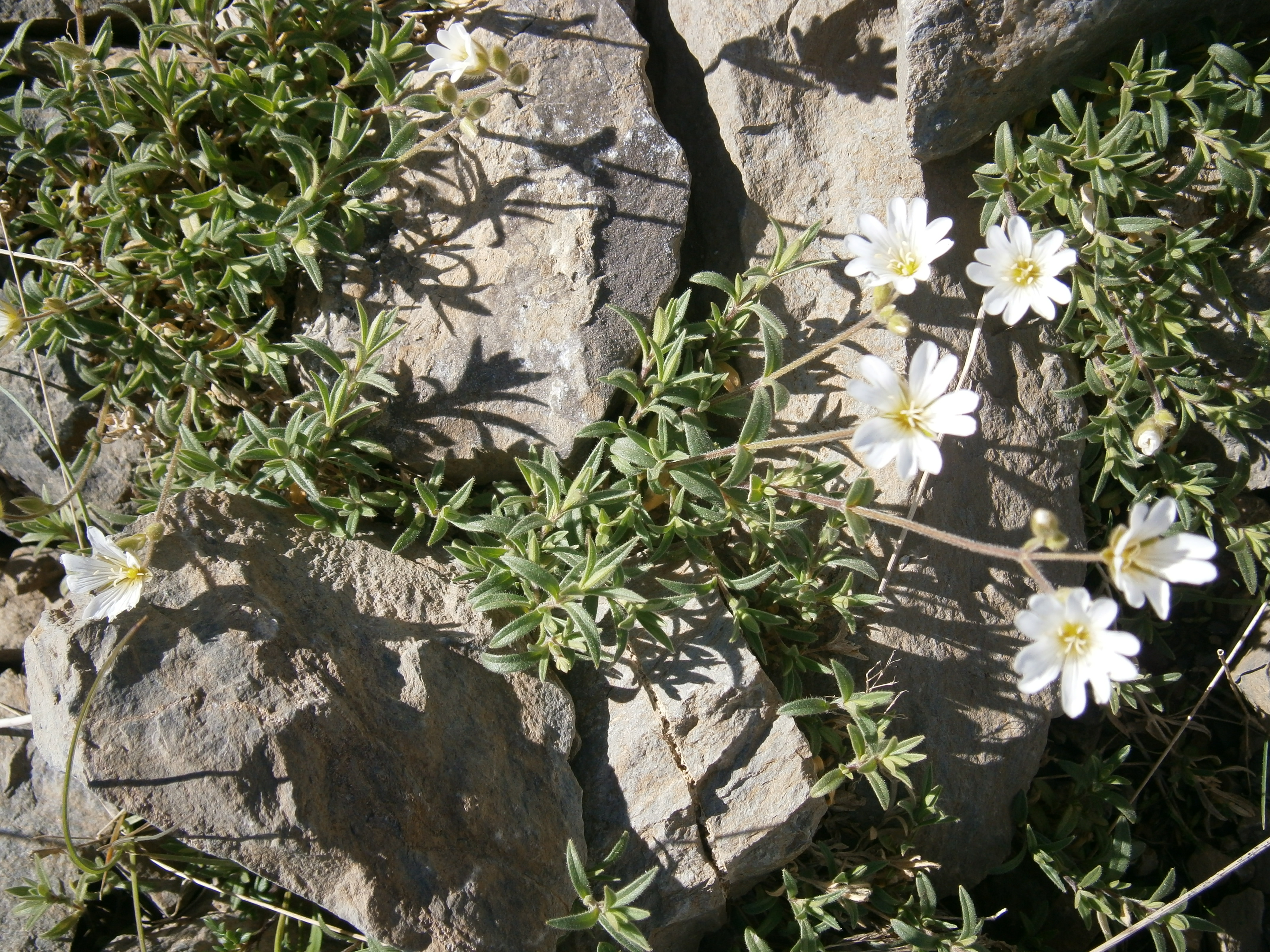 Cerastium lineare in the Oisans